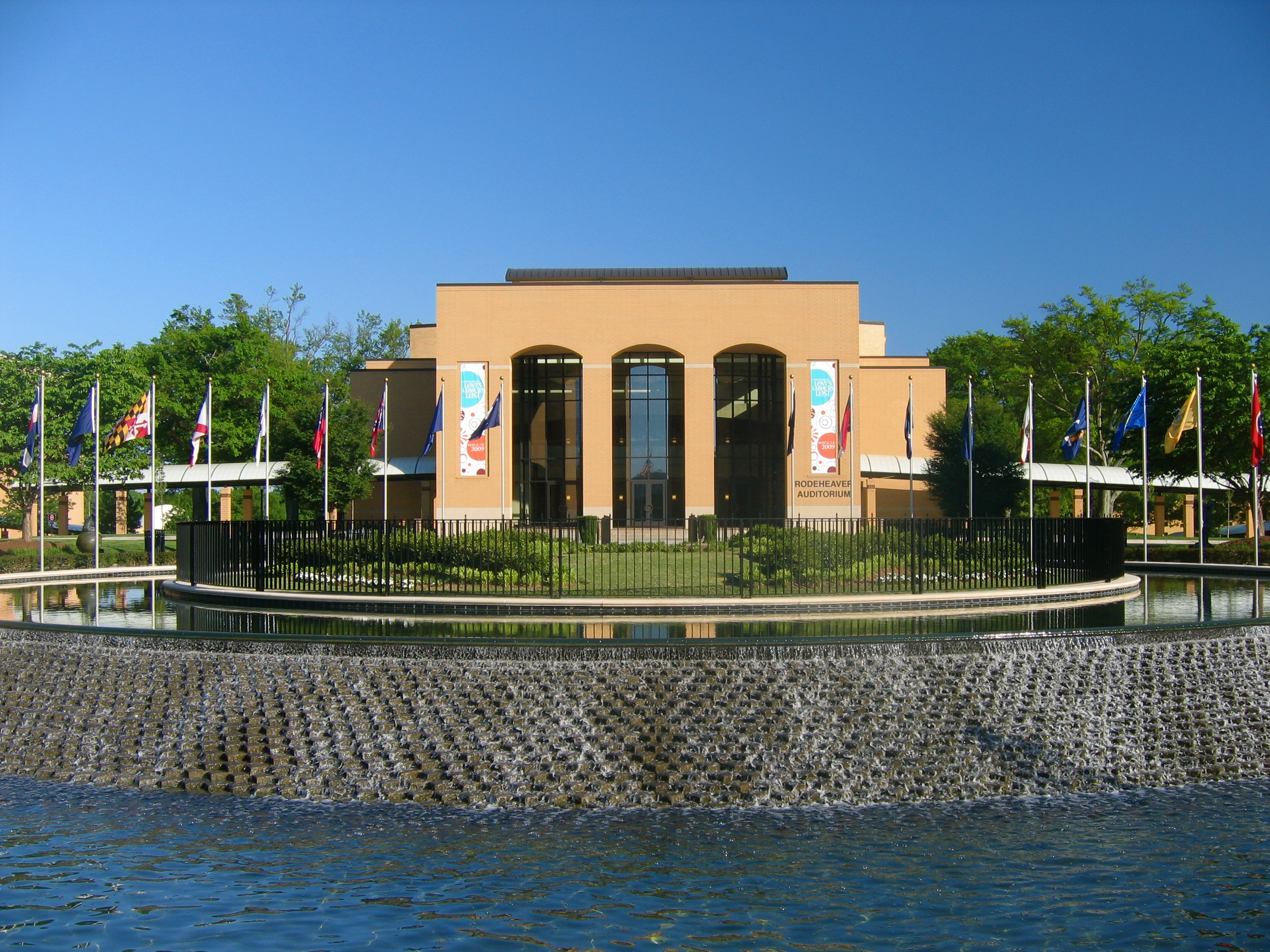 Rodeheaver Auditorium, Bob Jones University, Greenville, South Carolina, USA